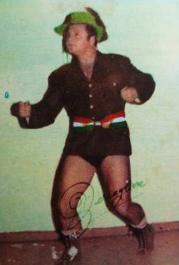 luchador profesional